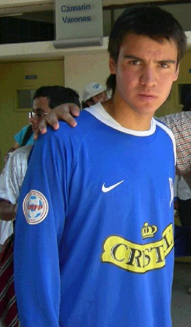 Christopher Toselli, Universidad Catolica